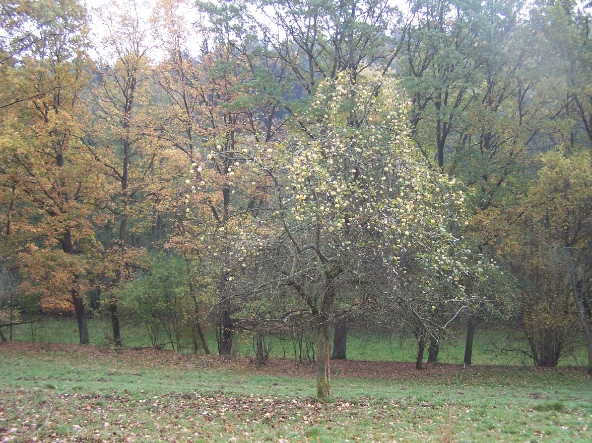 Near Kriegersberg.